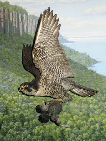 Description: Peregrine Falcon - Source: own work - Location: American Museum of Natural History, New York - Author: self, User:Stavenn